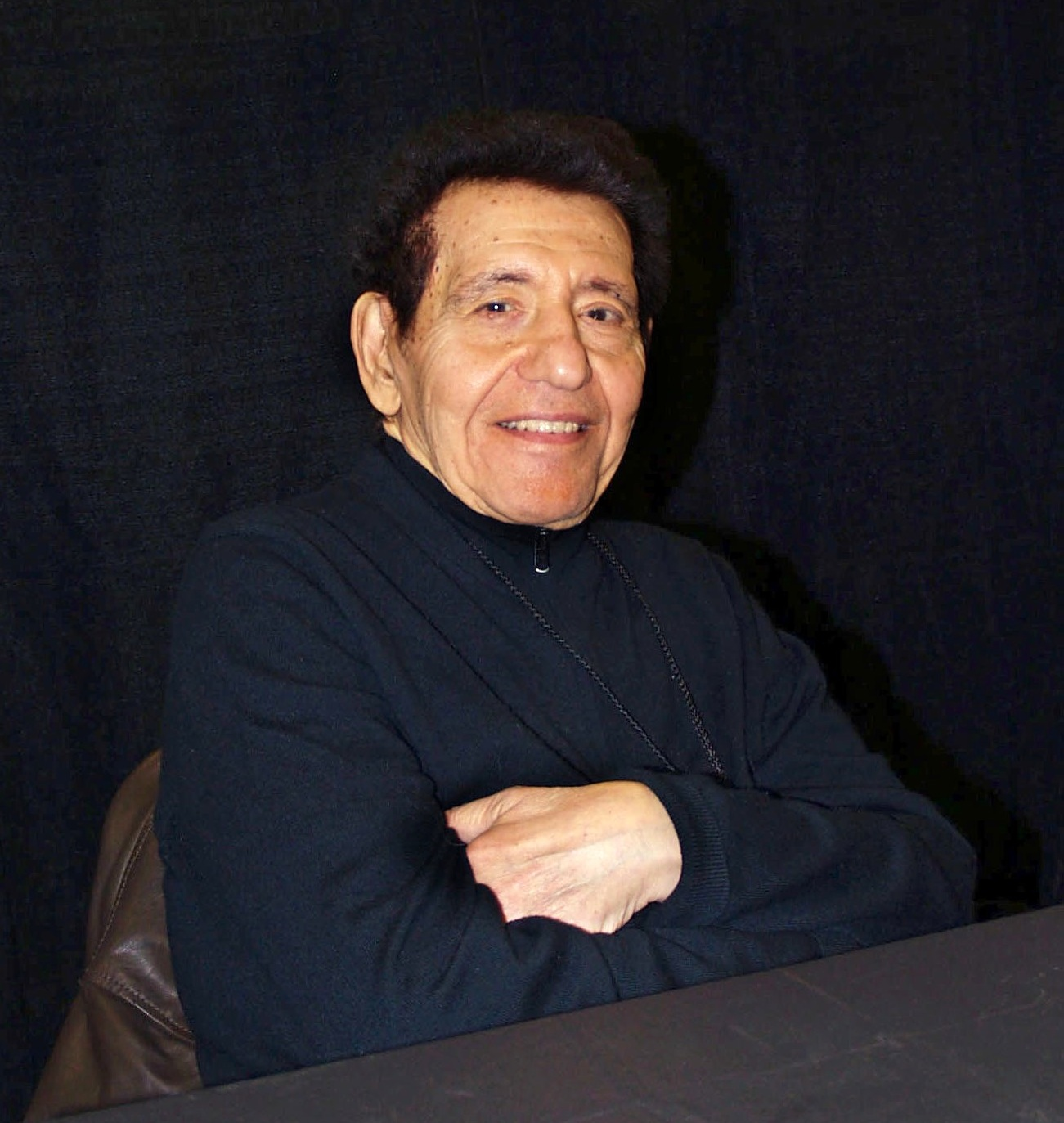 Illustrator Basil Gogos at the Meadowlands Exposition Center in Secaucus, New Jersey on April 11, 2015, Day 1 of the 2015 East Coast Comicon. This photo was created by Luigi Novi. It is not in the public domain, and use of this file outside of the licensing terms is a copyright violation.